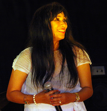 Aster Aweke performing on stage in Melbourne, Australia